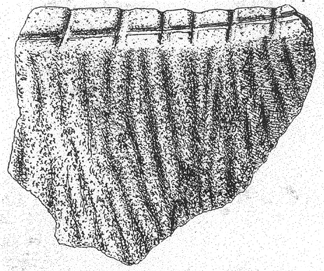 Drawing of a steatite vessel fragment uncovered by archaeologist M.R. Harrington during his excavations on Bussell Island, at the mouth of the Little Tennessee River in Loudon County, Tennessee, USA. This vessel belonged to the "Round Grave" culture, which corresponds roughly to the Late Archaic (c. 3000-1000 B.C.) and Woodland (c. 1000 B.C. - 1000 A.D.) periods. The fragment's length is 2.6 inches (66mm).